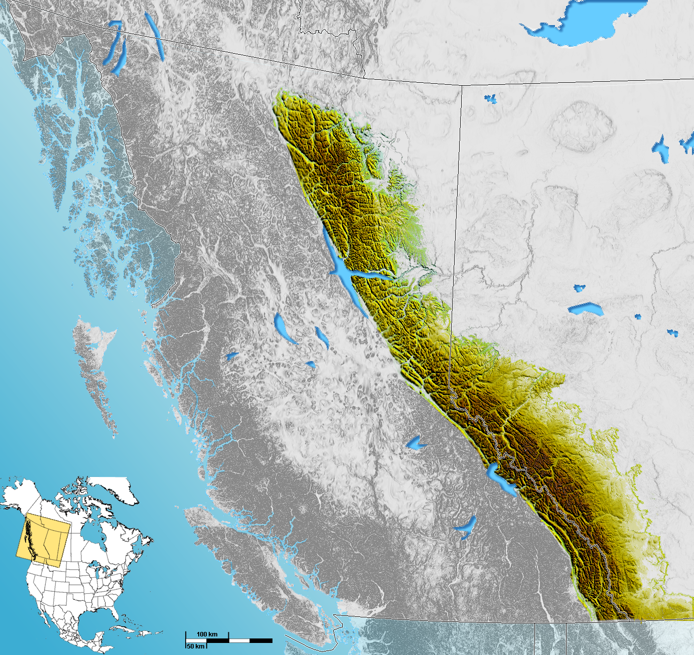 Shaded Relief map of the Canadian Rockies